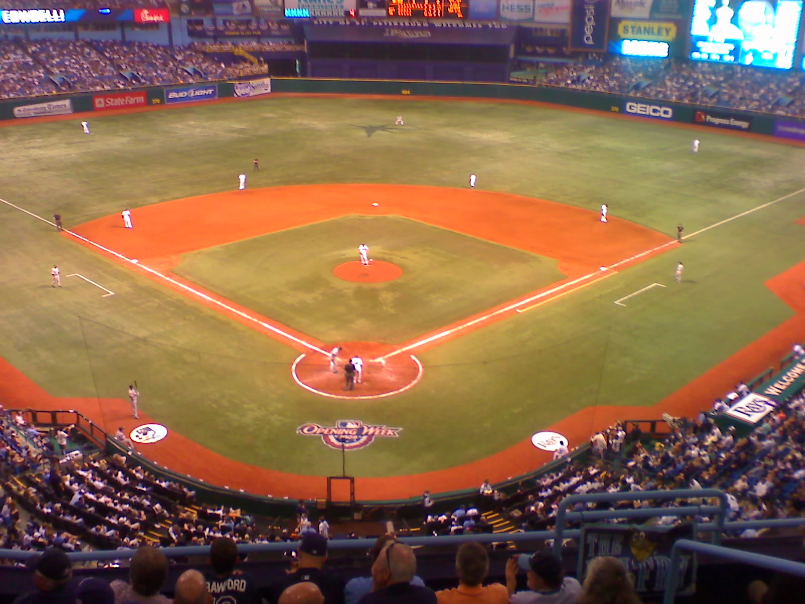 The opening game of the 2009 season at the Tampa Bay Rays's Tropicana Field . Photo taken from section 300. Tampa Bay defeated the New York Yankees 15–5.